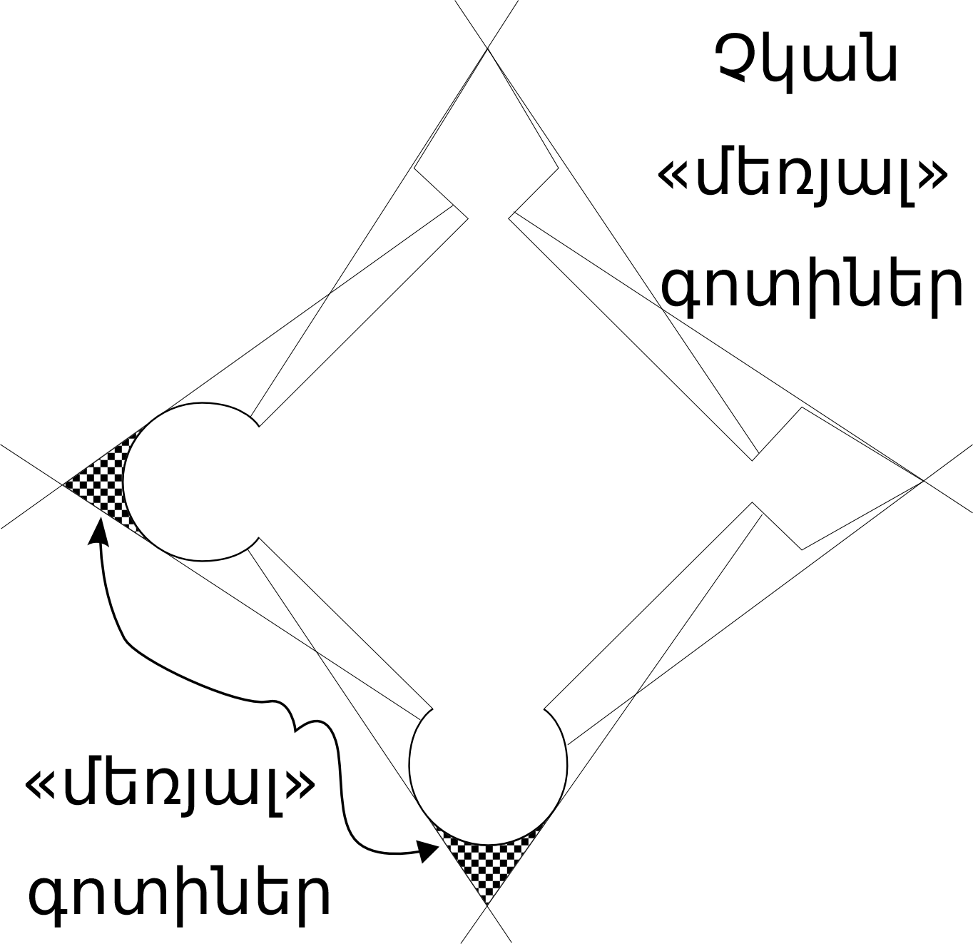 Line-of-fire shown for star forts and non-star forts, indicating the "dead" zones created by the latter. Inspired by figure of Lynn, John A. "The trace italienne and the Growth of Armies: The French Case." In "The Military Revolution Debate" ISBN 0-8133-2054-2